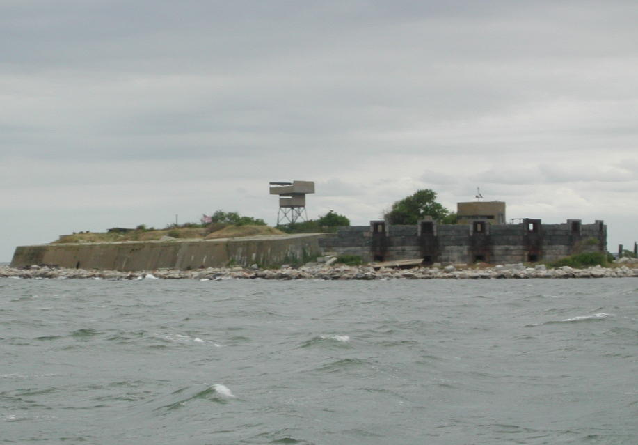 Photo by M. W. Grimes